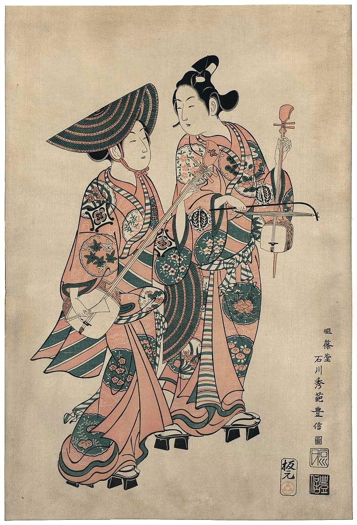 Torioi with Onoe Kikugorō I and Nakamura Kiyosaburō I. ca. 1750 but recut edition